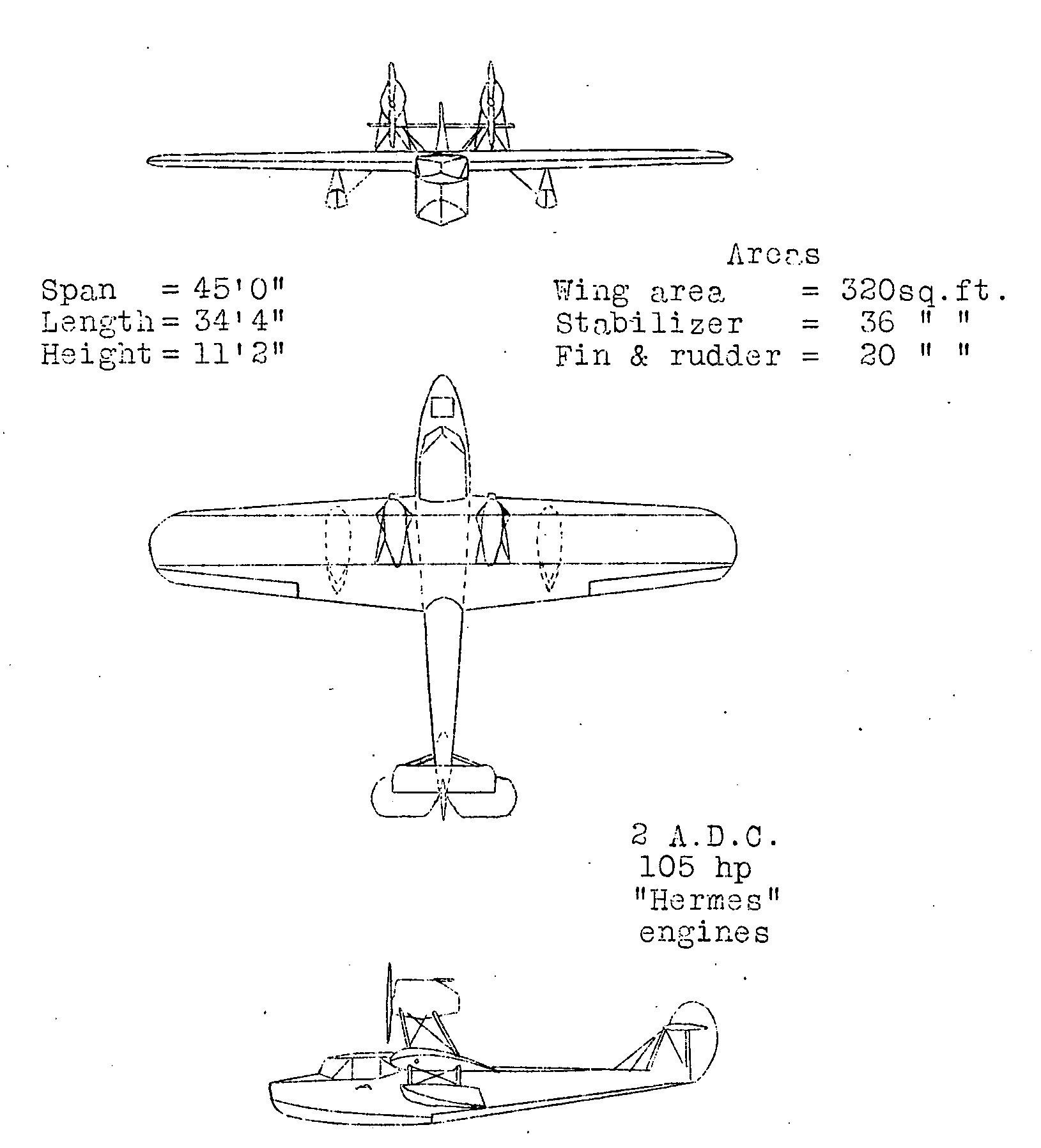 Saro Cutty Sark 3-view drawing from NACA Aircraft Circular No.105